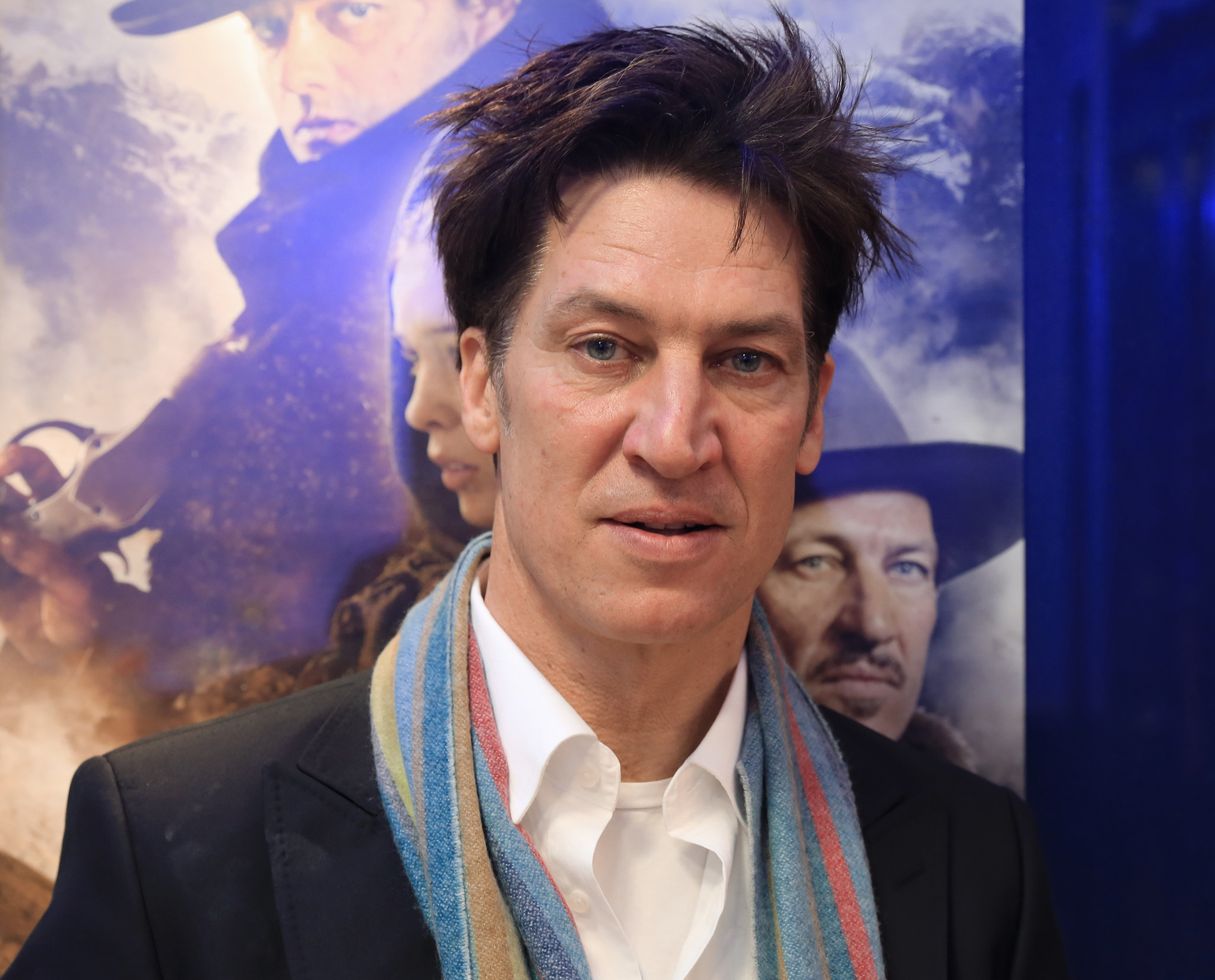 Tobias Moretti at the Austrian premiere of Das finstere Tal at Gartenbaukino in Vienna.